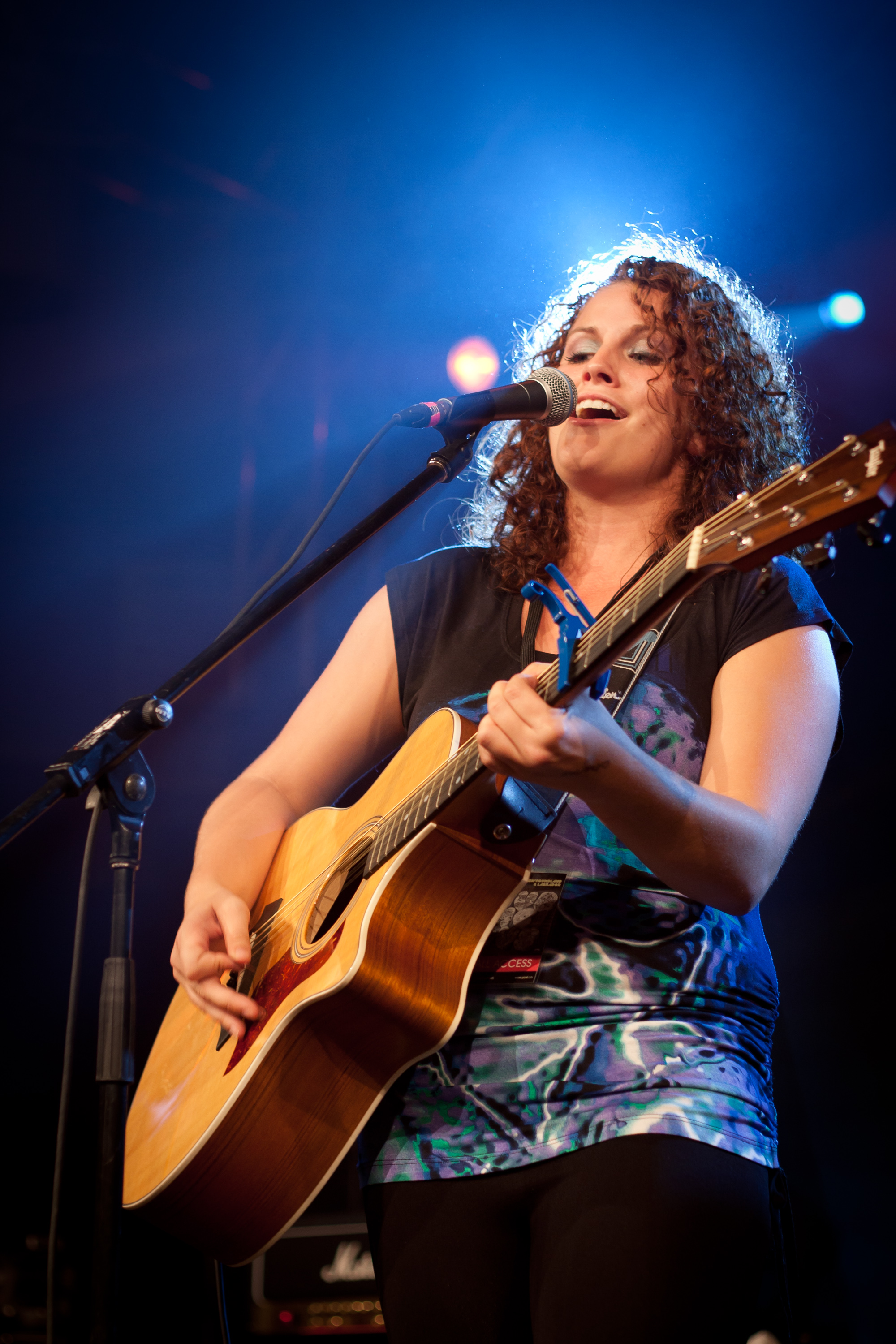 Kellie Loder performing at YC (Youth Conference) 2010 in Gander, Newfoundland